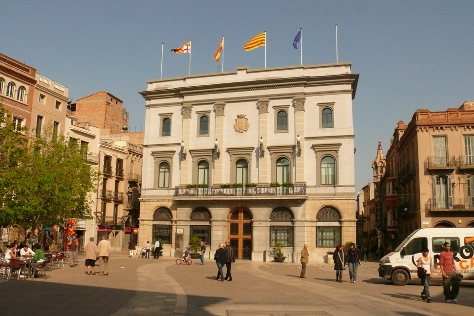 Igualada town house